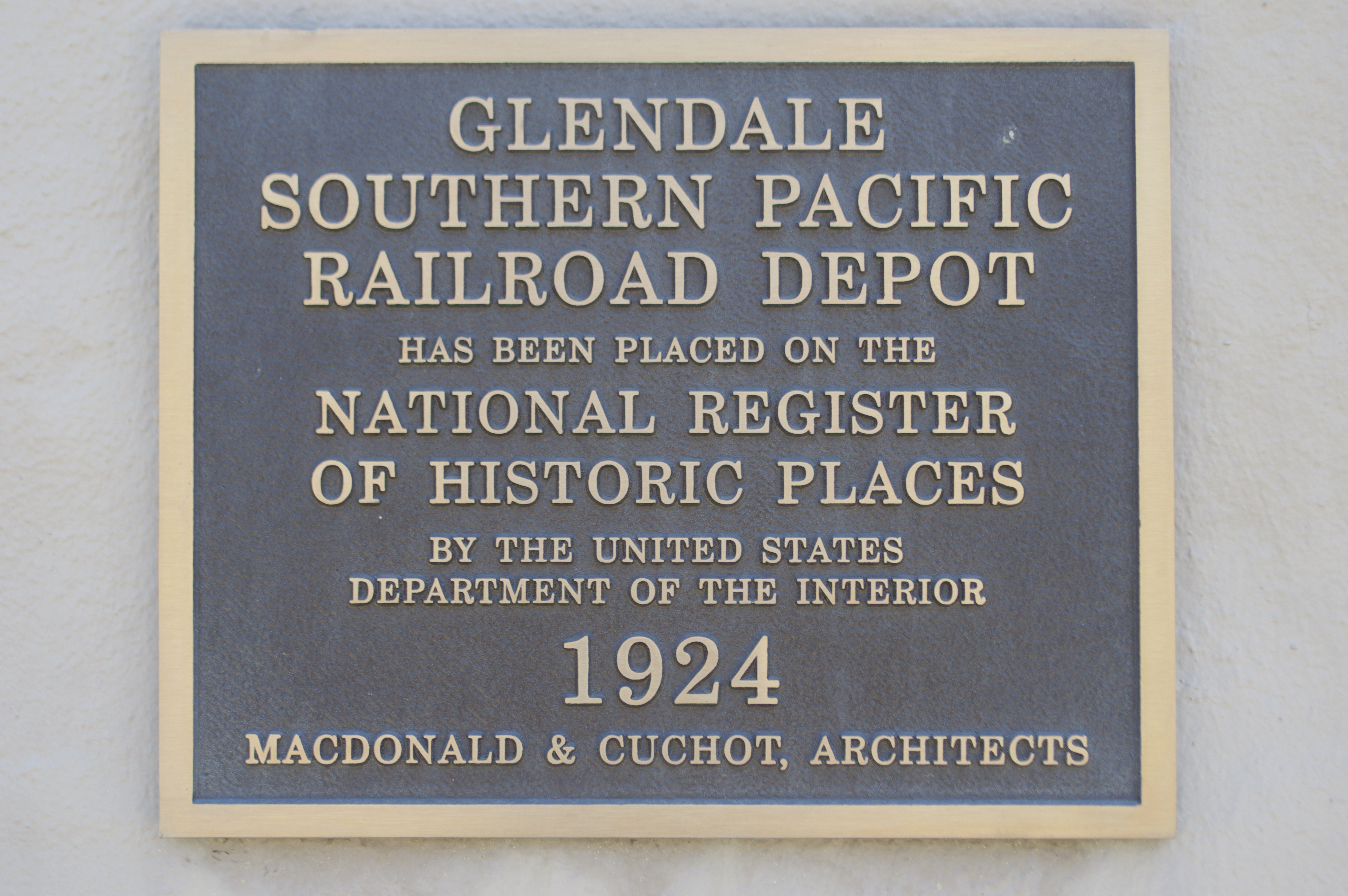 This is the National Register of Historic Places plaque at the Glendale Transportation Center in Glendale, California.